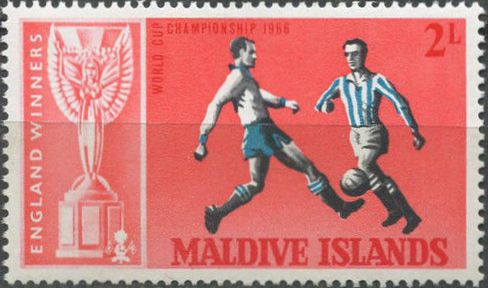 Maldives 1967 Football 002